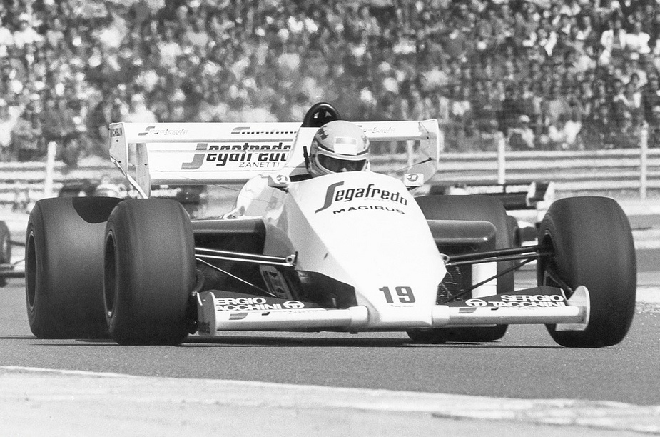 Ayrton Senna driving the Toleman TG 184.